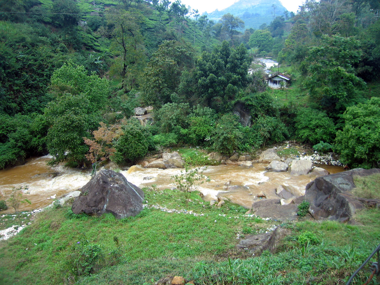 A strem en route Ooty.